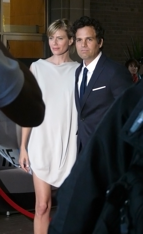 Actor Mark Ruffalo and Wife on the Red Carpet on September 10th 2008 at the TIFF 08 Premiere of What Doesn?t Kill You Check out More great pics and Video at